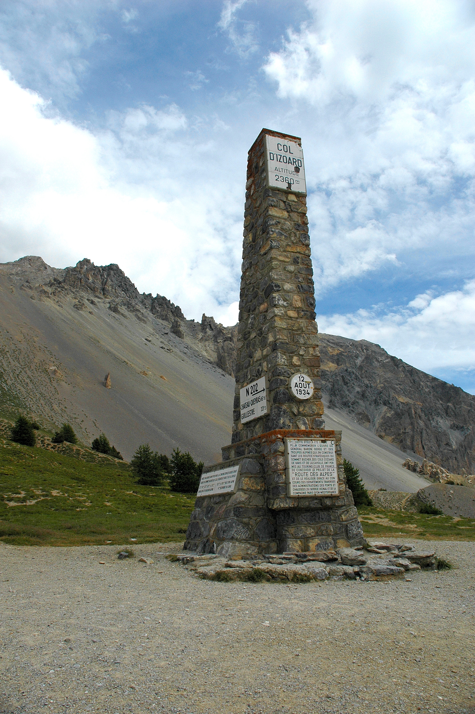 Col d'Izoard - Monument - Western Alpes - France